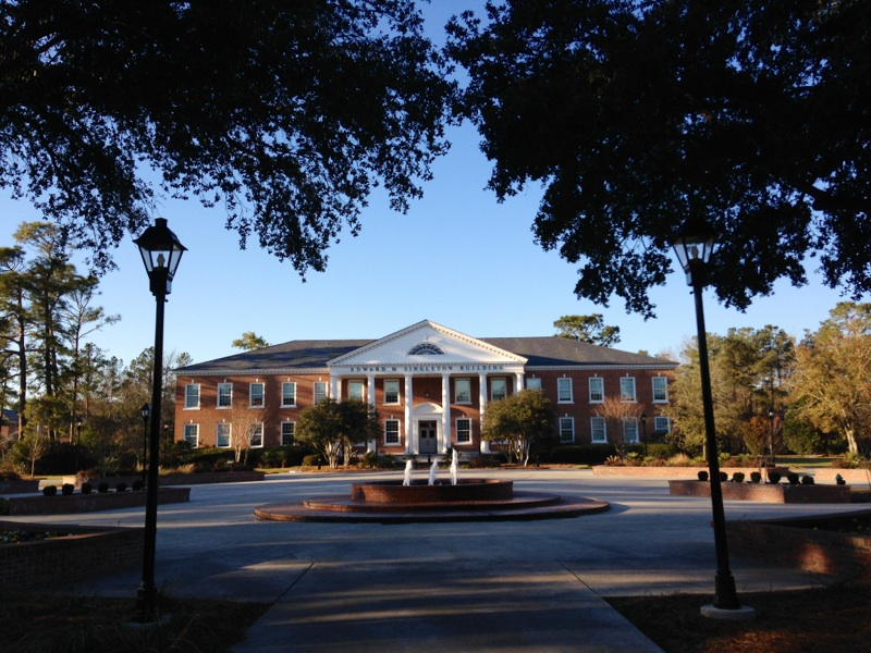 The Singleton Building and the fountain at Blanton Park at Coastal Carolina University in Conway, South Carolina.